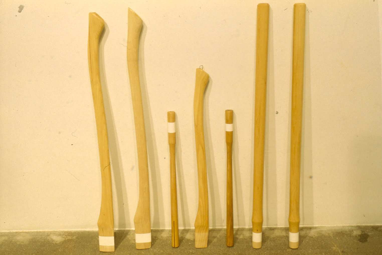 Axe Handles, 1999, by Sarah Seager